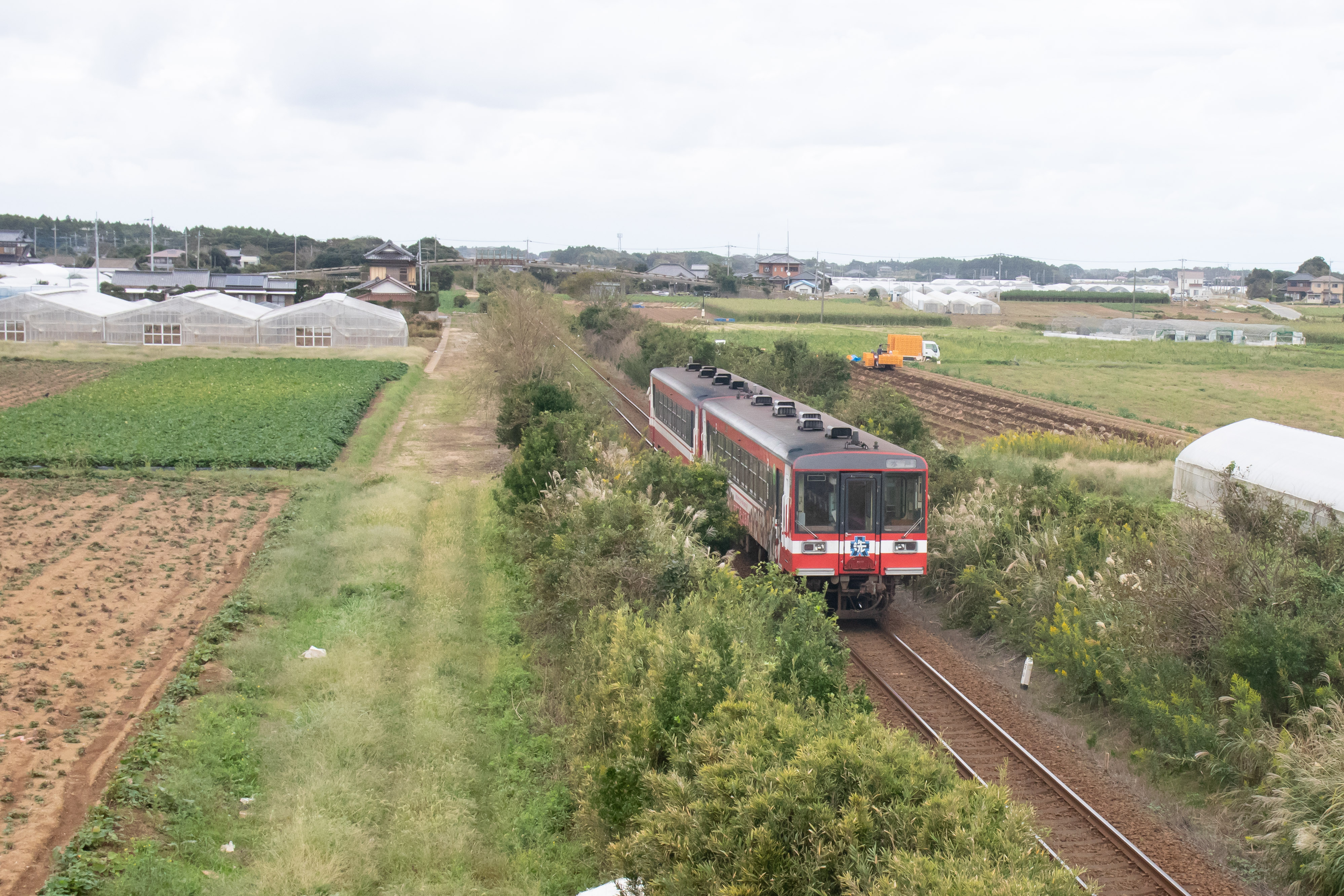 Kashima Rinkai Railway 6000 series train on the Oarai Kashima Line in Kashima, Ibaraki Prefecture, Japan Canon EOS 80D + Sigma 17-70mm F2.8-4 DC Macro OS HSM